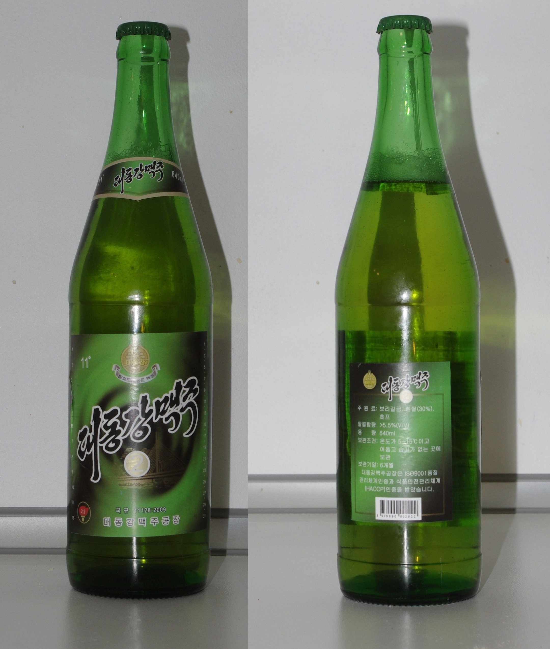 640ml Bottle of Taedonggang beer purchased in Sinujiu, DPKR, 2014